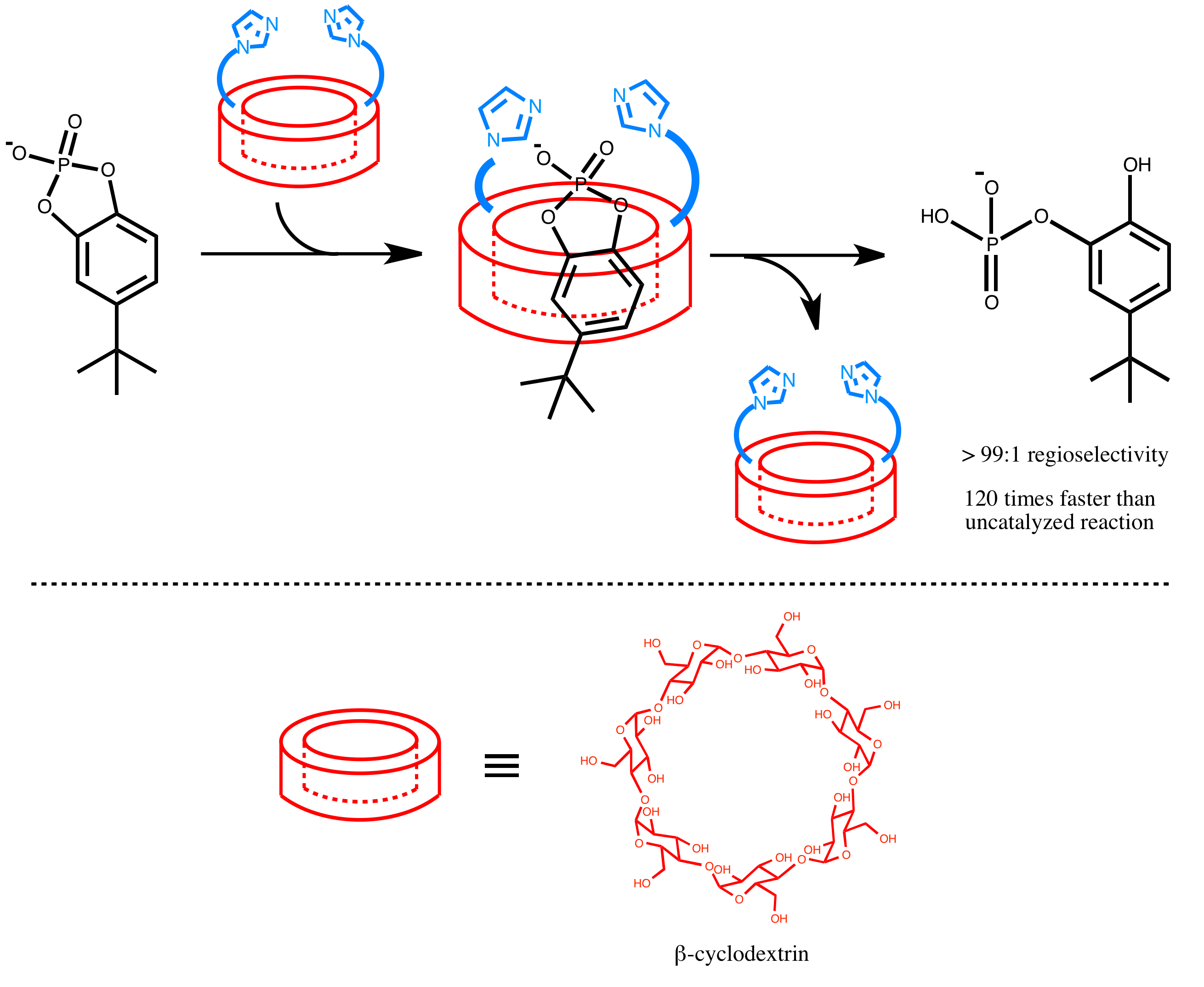 Breslow's Selective cyclic-Phosphate Hydrolysis Catalysed by Diimidazole-Cyclodextrin